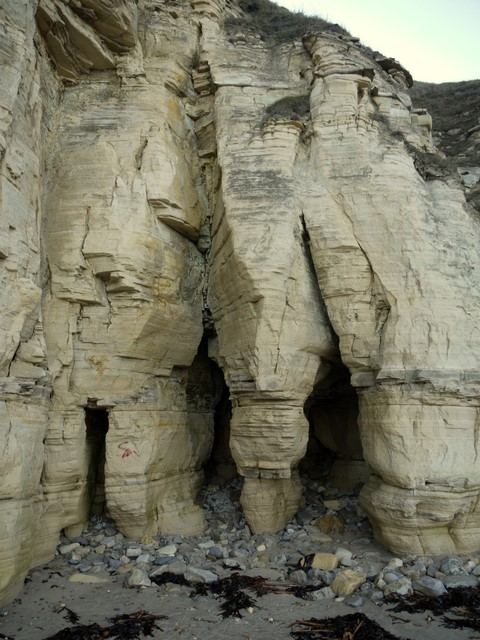 Caves in the cliff face at Marsden Bay. Careful comparison of this and a photograph on the same site taken two years earlier 917800 show that few changes to the Magnesian Limestone cliffs have occurred.